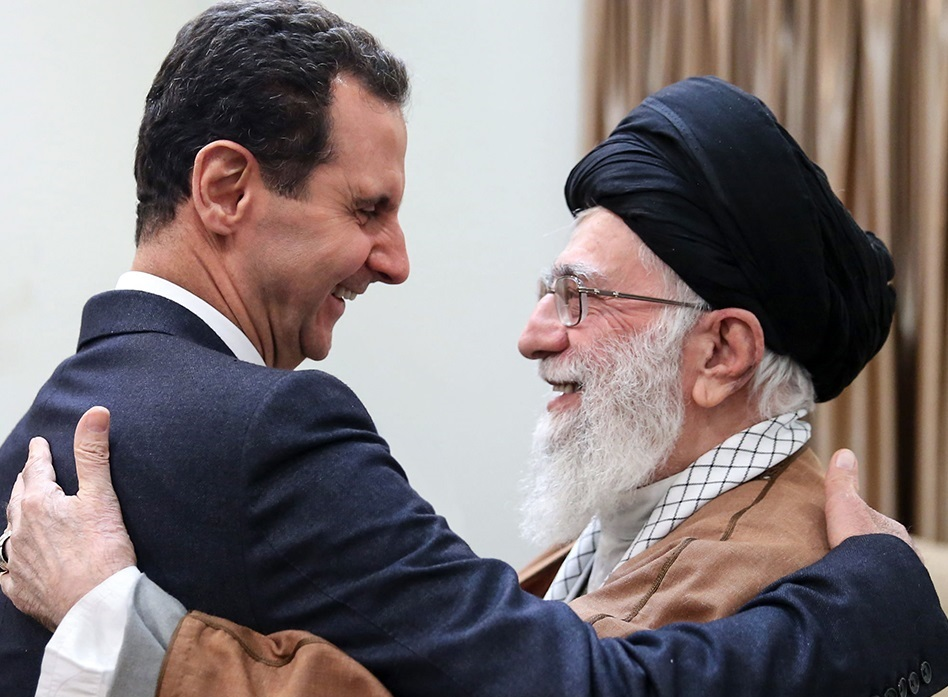 Ali Khamenei meets Bashar al-Assad in Tehran